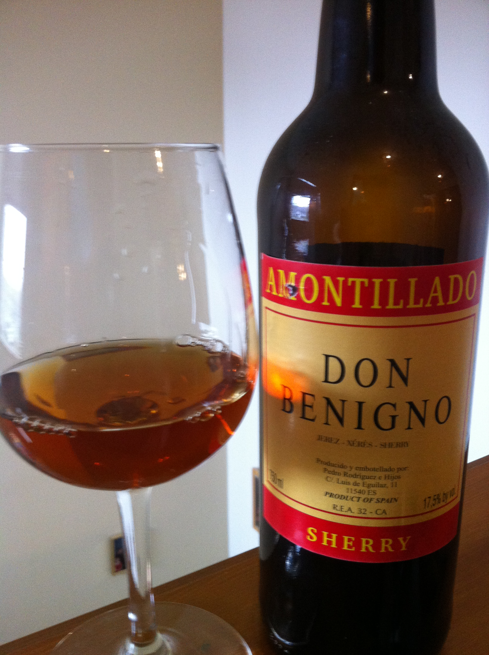 Spanish fortified wine